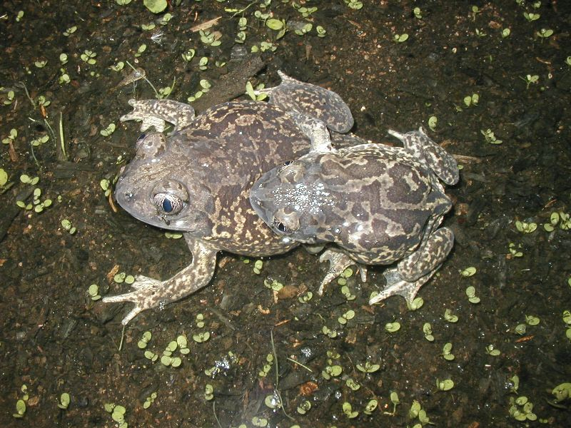 Couple of western spadefoot (Pelobates cultripes) reproducting in Catchéou temporary lake with the first autumn rainfalls (Le Muy - Provence)